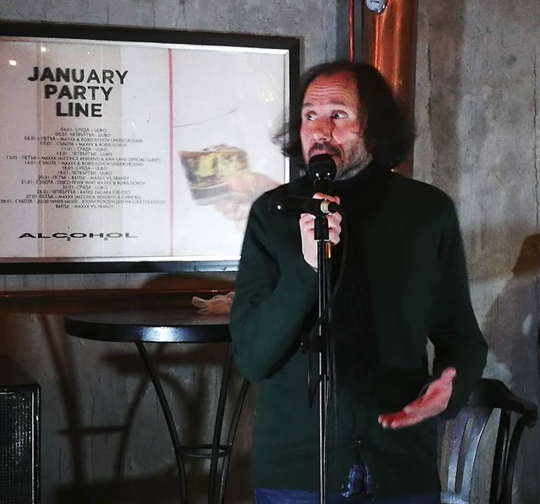 Bulgarian poet Petar Tchouhov during the poetry performance "2 years Beyond the cover"